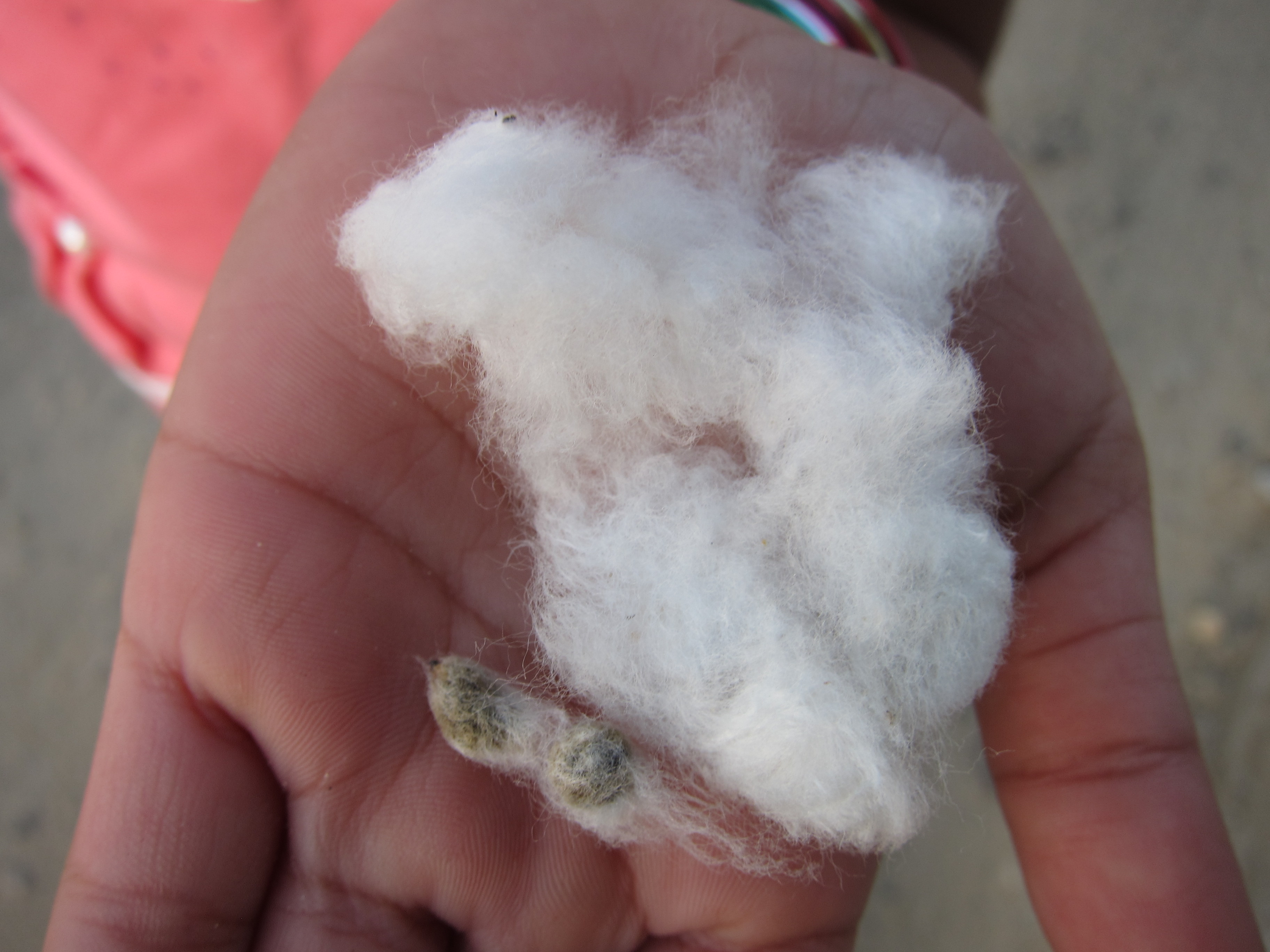 Cotton Gossypium genus പരുത്തി പരുത്തിക്കുരു